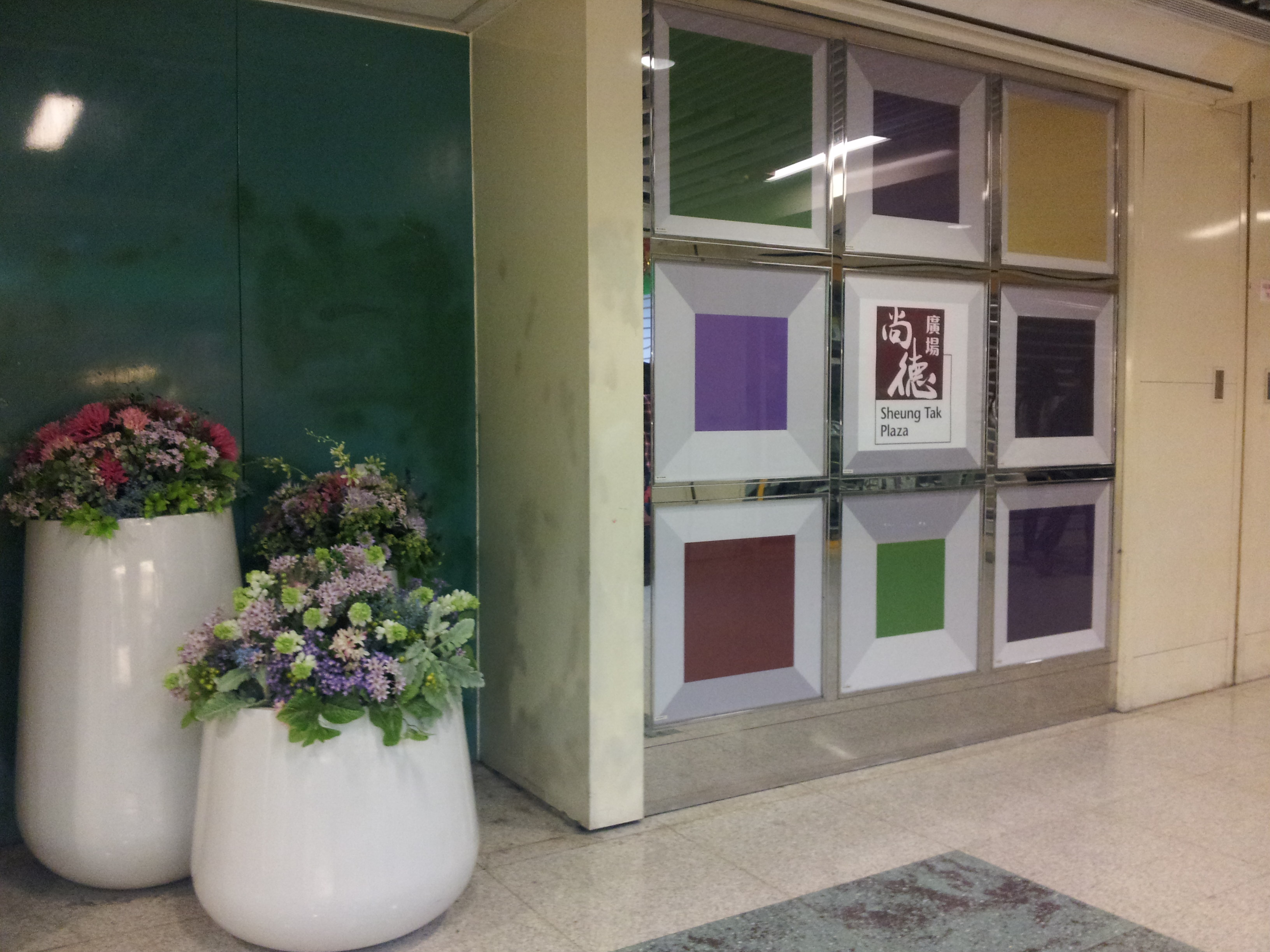 Sheung Tak Plaza Corner